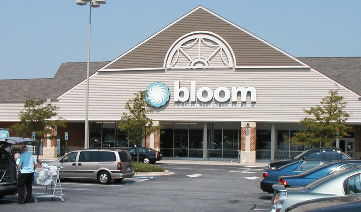 Bloom Supermarket photographed in Accokeek, Maryland, USA